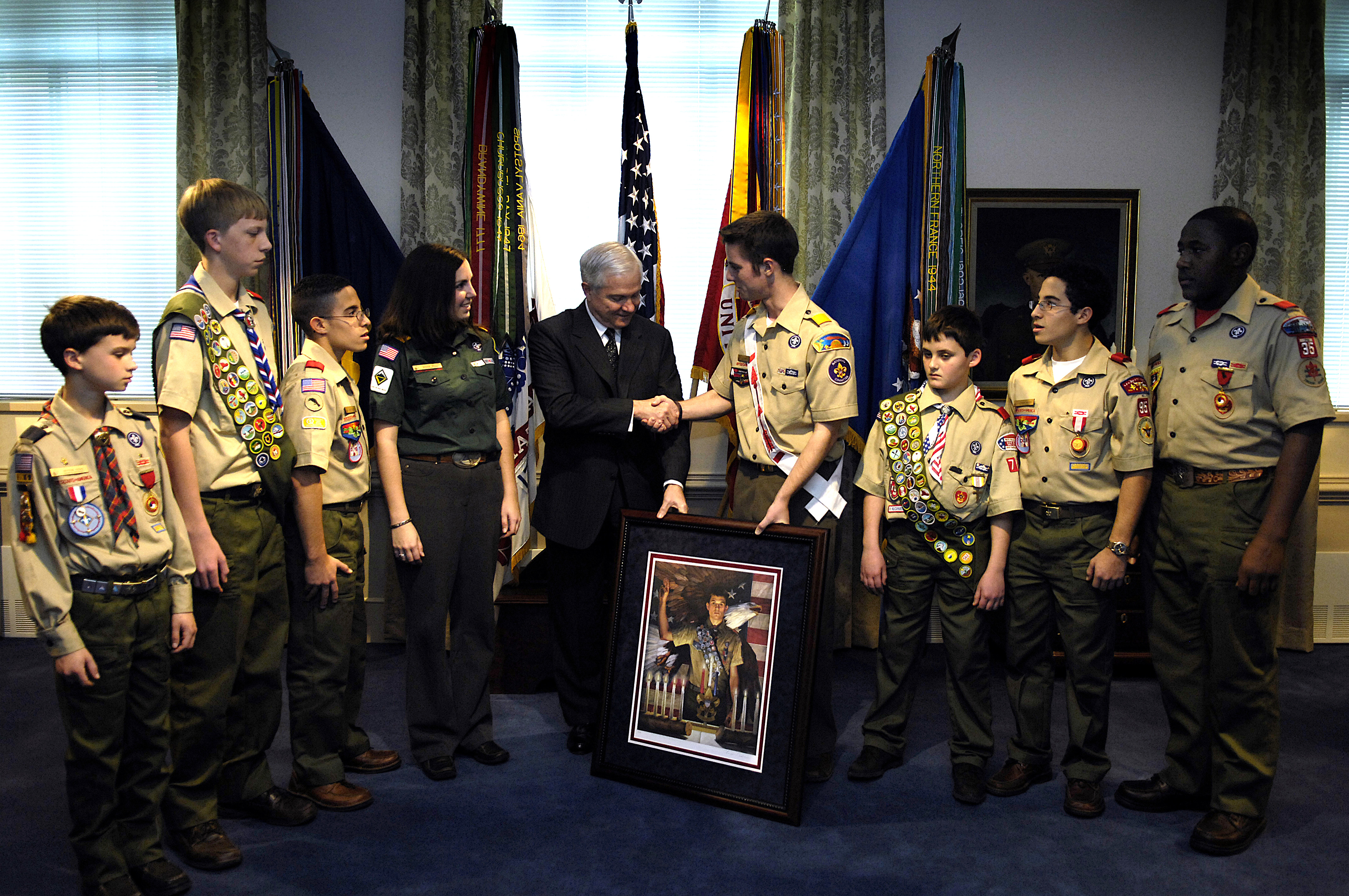 The Boy Scouts of America present a gift to Defense Secretary Robert M. Gates after presenting a copy of their "Report to the Nation" at the Pentagon, Feb. 26, 2007. Defense Dept. photo by Cherie A. Thurlby